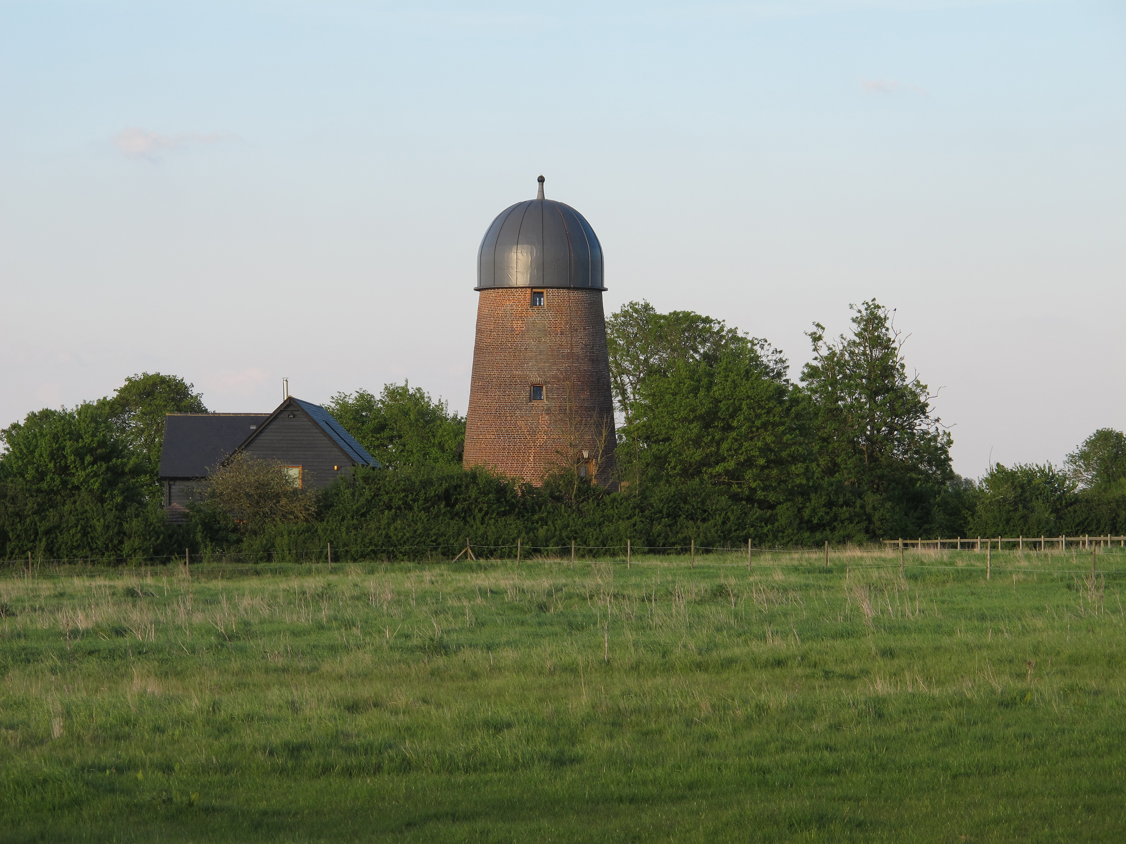 Gainsford End Windmill (listed building)